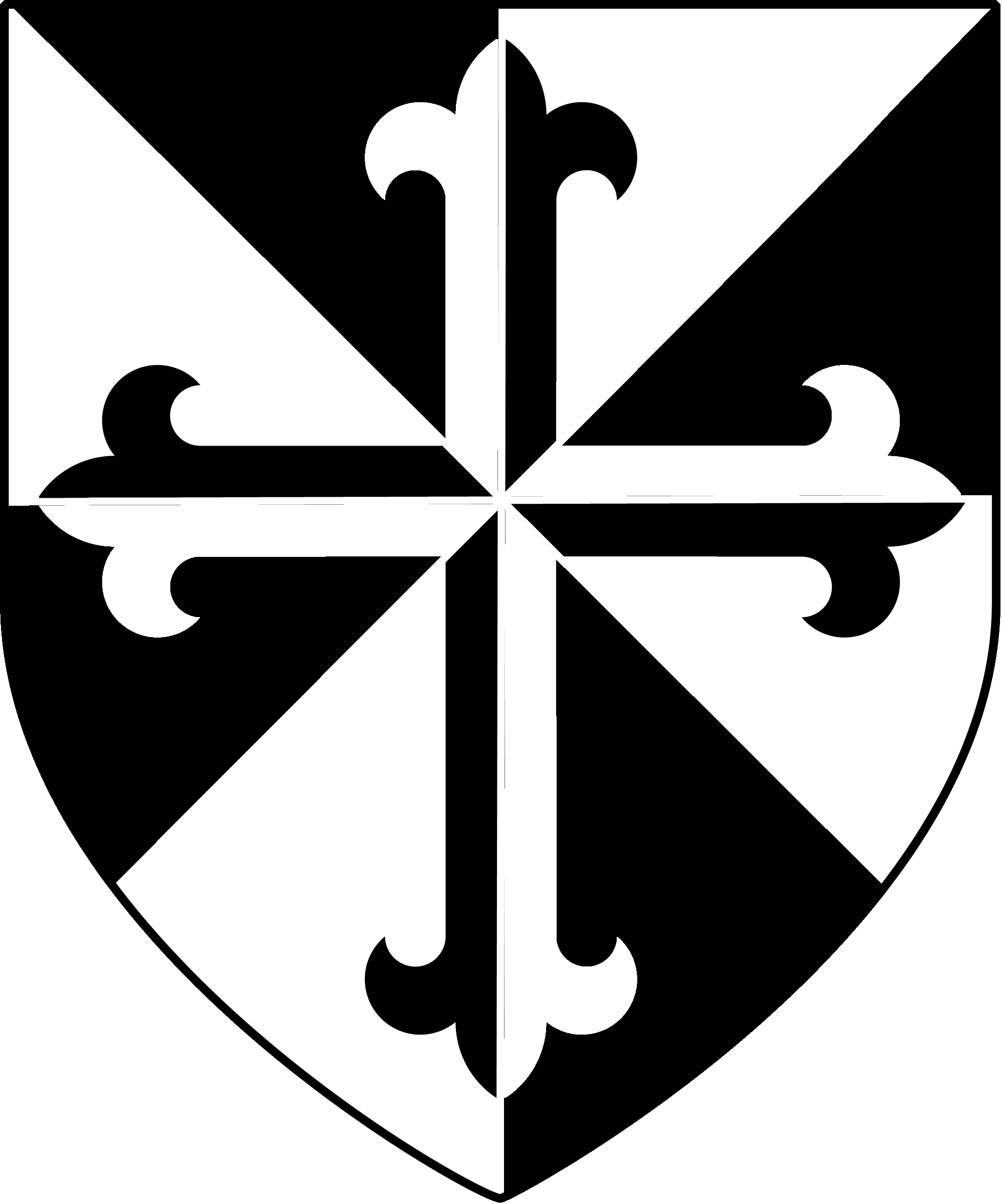 Incorporates Cross-Flory-Heraldry.svg and Old_French_Escutcheon.svg